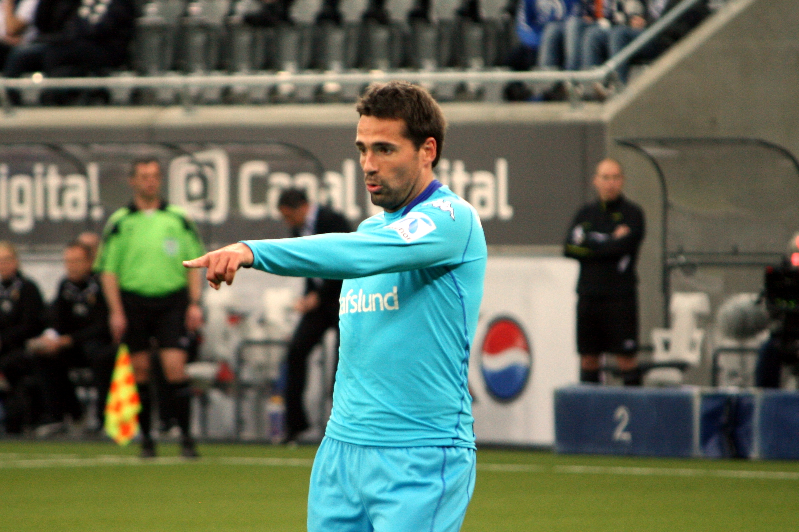 Norwegian footballer Martin Andresen.